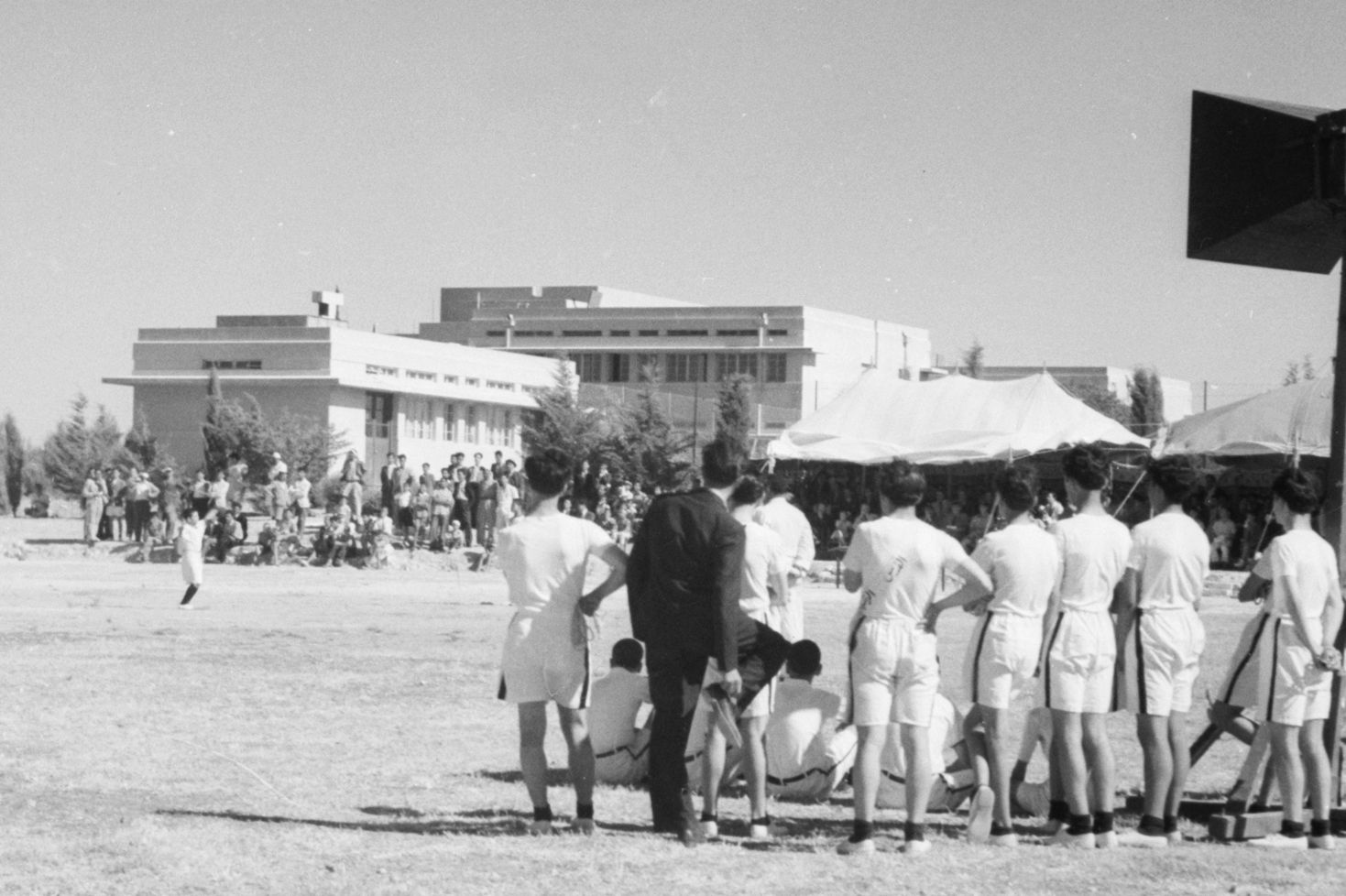 Inter-District physical training competition, etc. at Arab College, Jerusalem. General view of sports ground during exercises